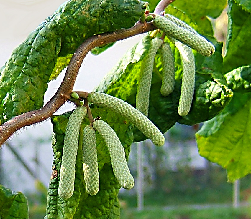 hazel